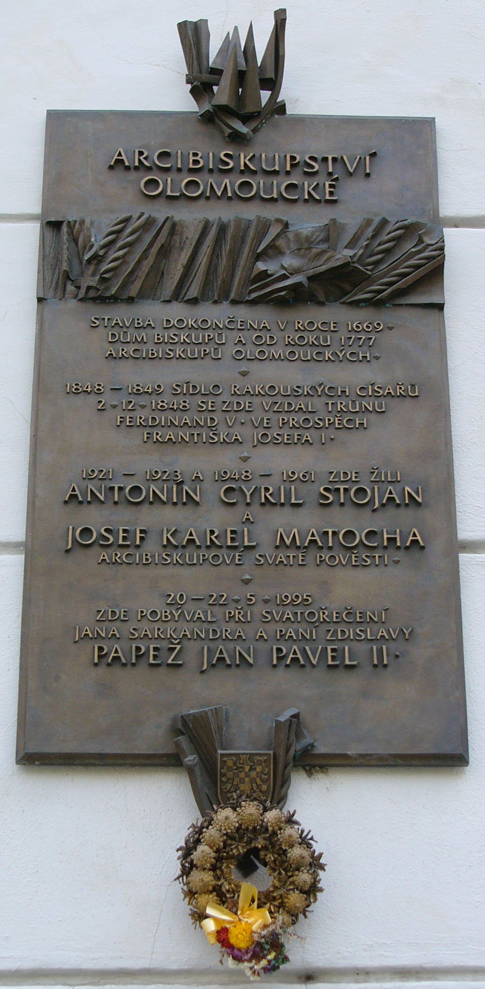 Memorial plaque by Otmar Oliva at building of diocese (archdiocese) in Olomouc (Czech Republic). Photo by Michal Maňas.